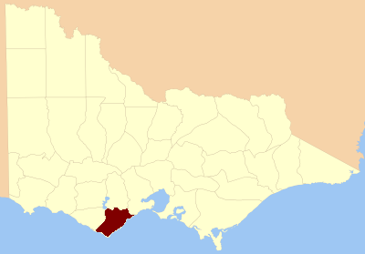 Electoral district of Polwarth, Victoria